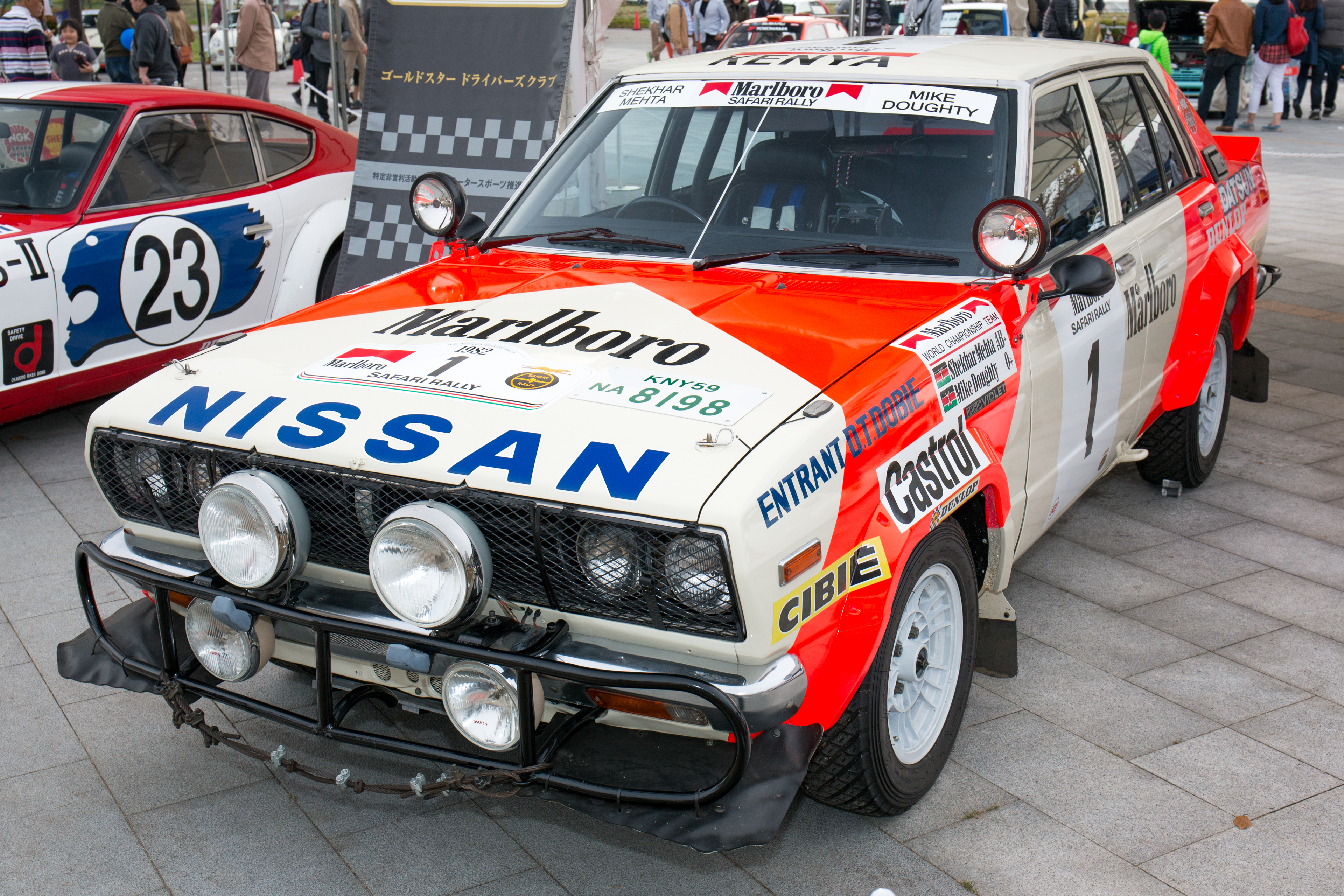 Motorsport Japan 2015: 1982 Nissan Violet (Group 4)